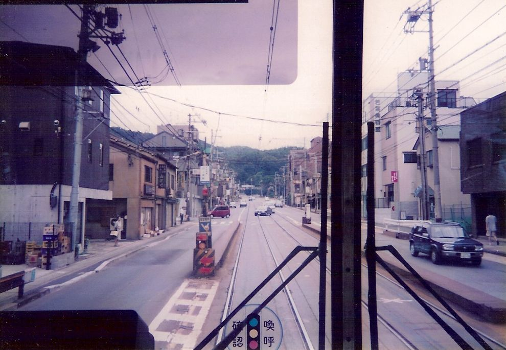 This was Keihan Keishin Line Hinooka Station. This was taken in 1997/09.